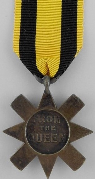 Back view of campaign medal awarded to British led forces who took part in the 1896 expedition against Prempeh, king of Ashanti, now part of Ghana.